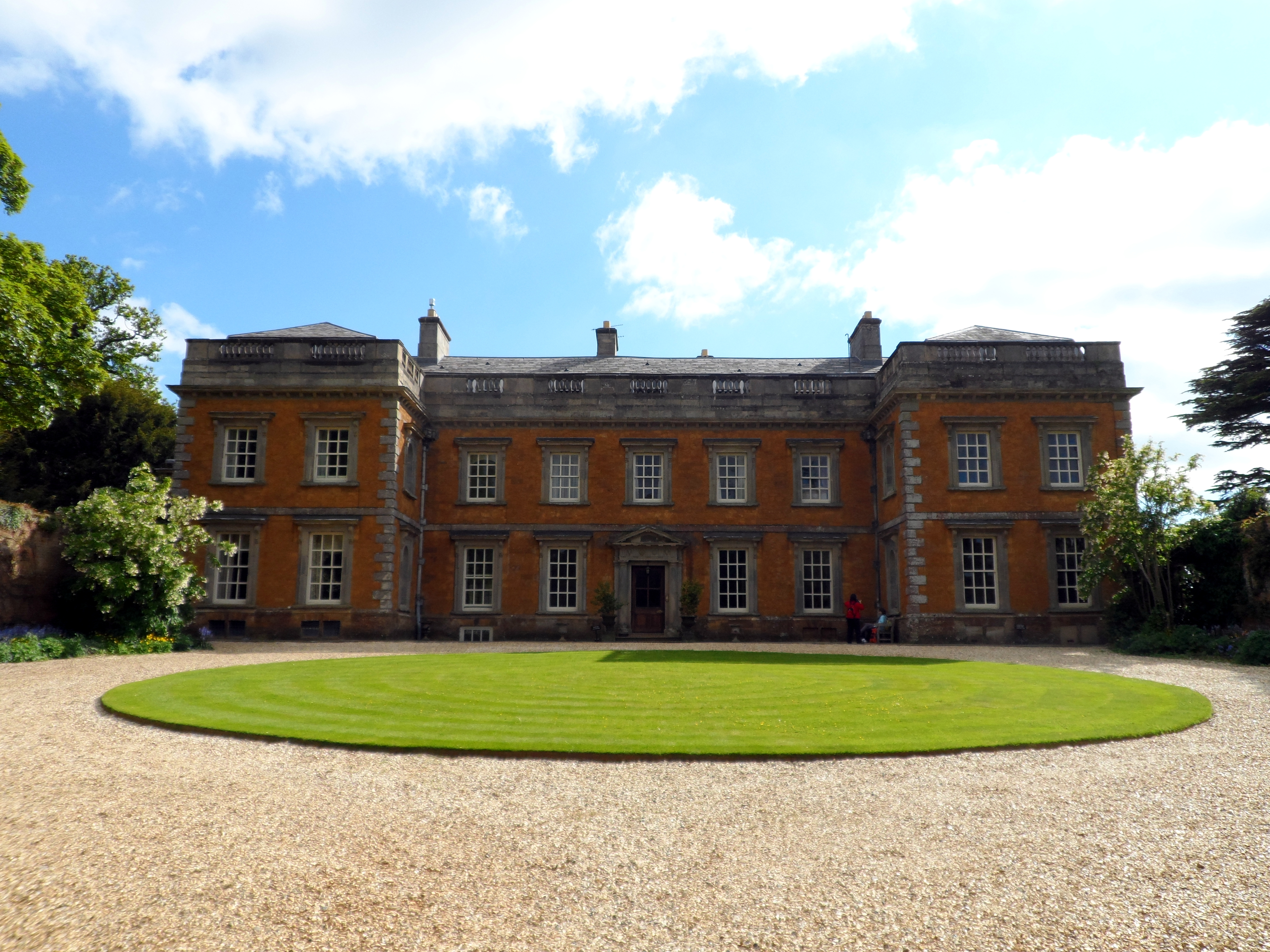 Farnborough Hall, Warwickshire: North side and main entrance.